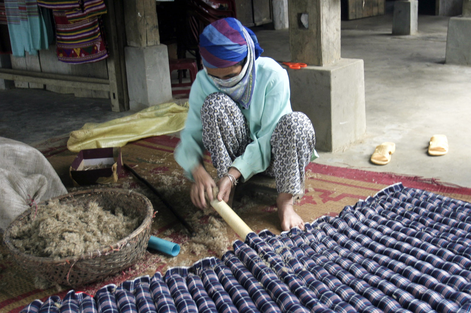 A woman stuffing a matress (like those we slept on -- comfy!)